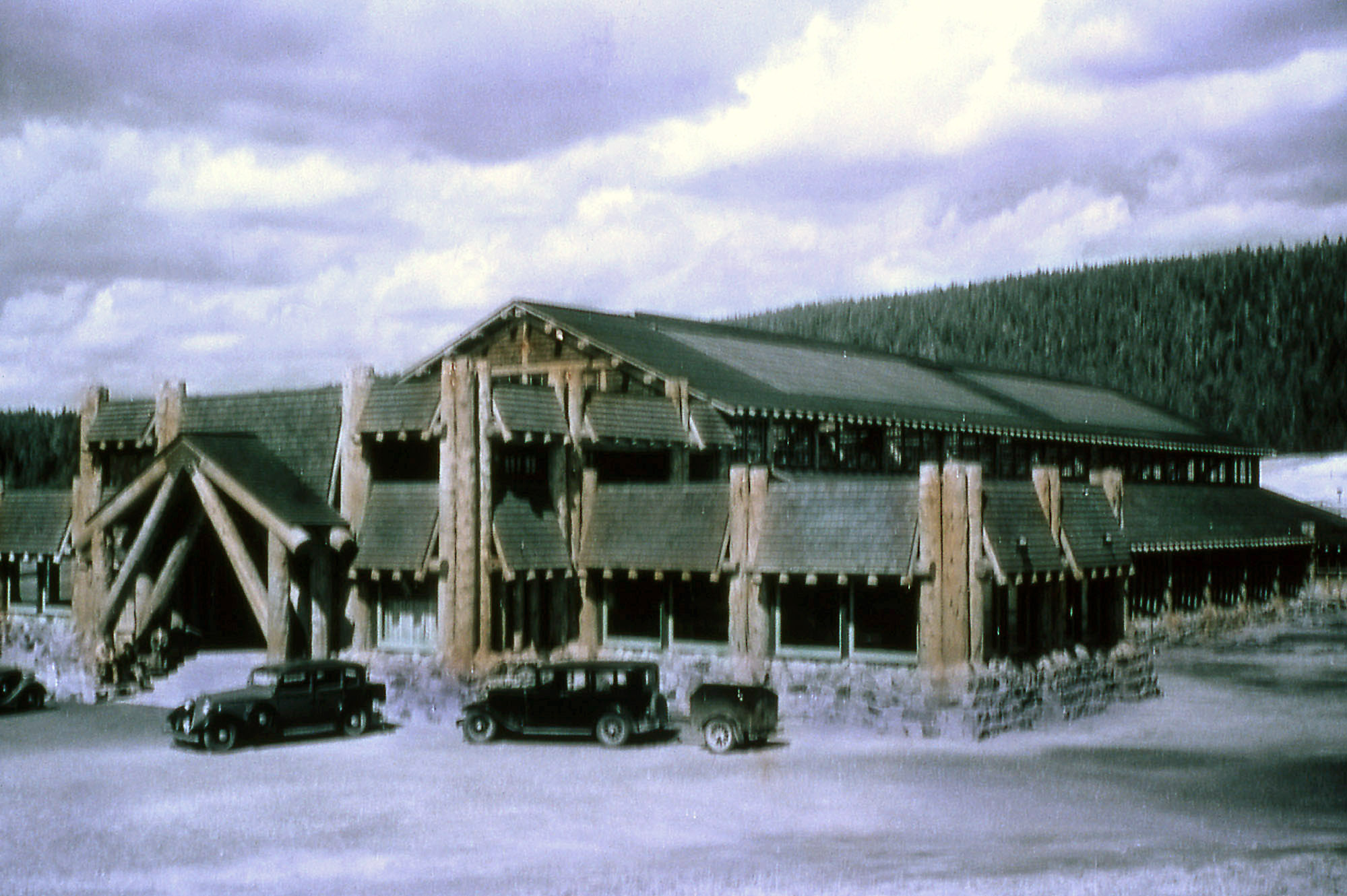 Swimming pool at Old Faithful, Yellowstone National Park, Wyoming, ISA